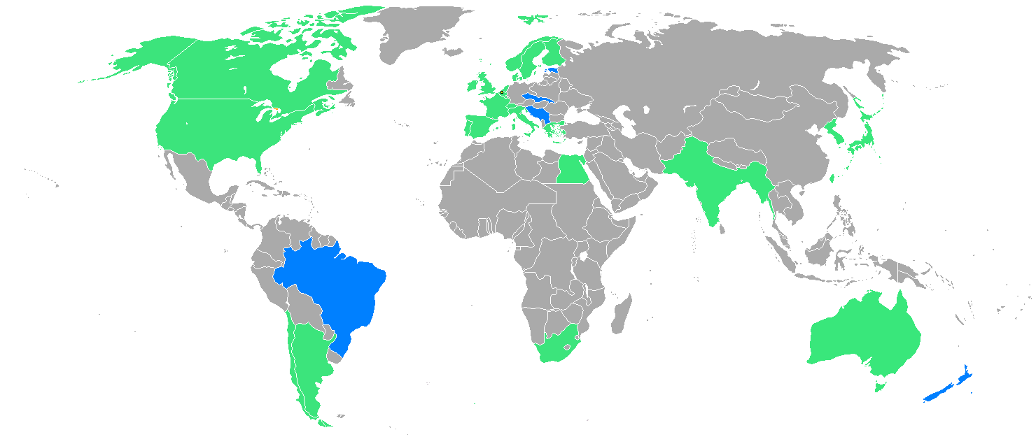 Countries which participated in the 1920 Summer Olympics, derived from blank world map and Image:1920 Summer Olympic games countries.png. Blue = Participating for the first time Green = Have previously participated. Yellow square is host city (Antwerp).